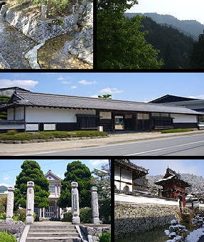 Tanba montage